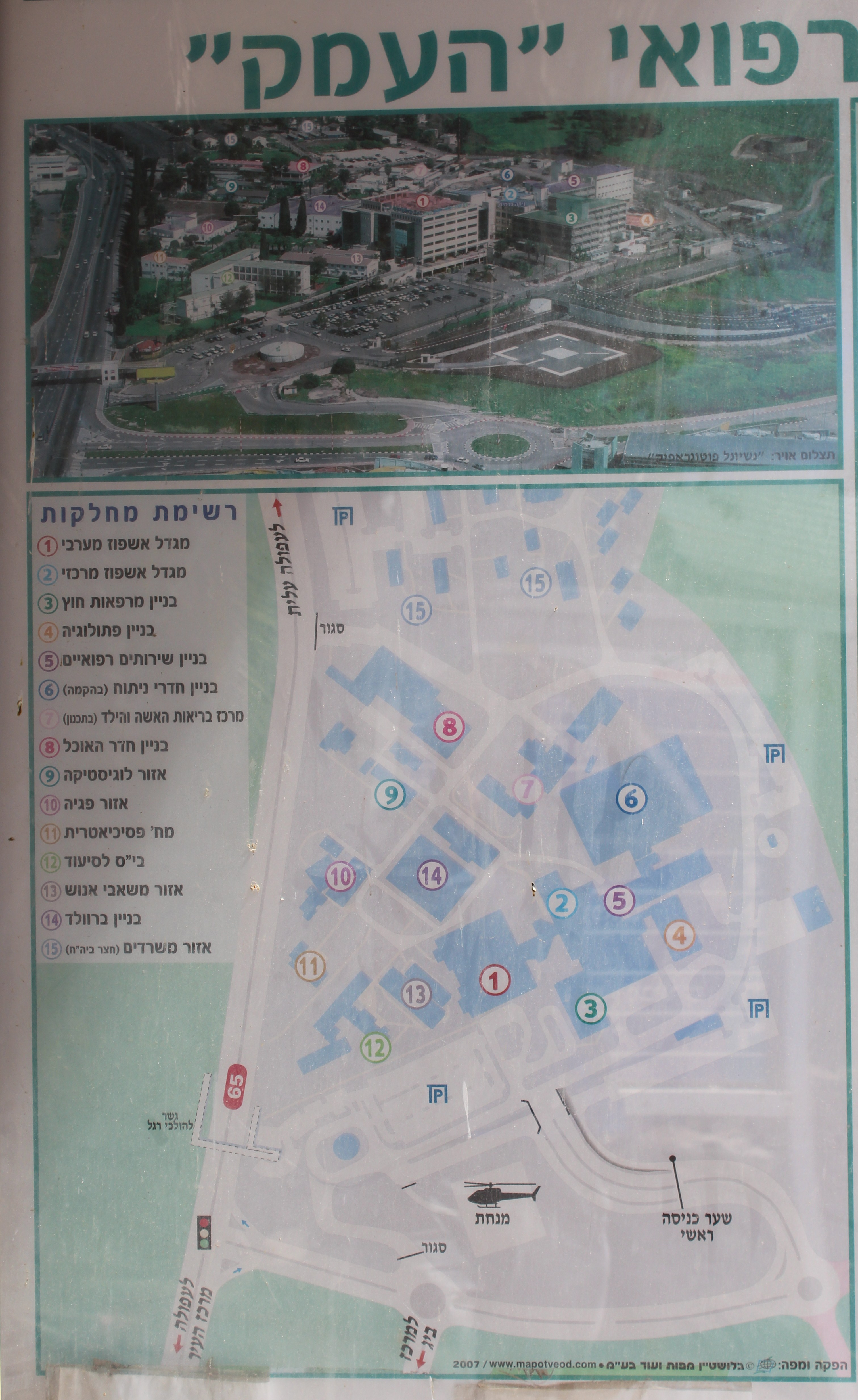 HaEmek Medical Center, Afula, Israel This image was taken as part of the Elef Millim project trip to Afula Ilit, in the town of Afula in the Jezreel Valley, which was held on Friday, 29th March 2013. To view all images uploaded as part of the Elef Millim Project